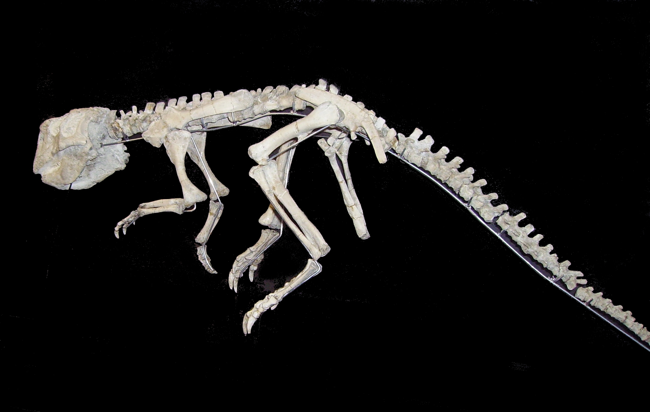 Photographer: User:Ballista from Dinosaurland, Lyme Regis, England